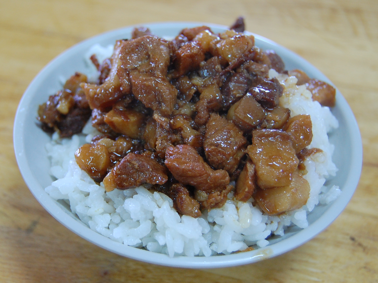 Add cubed pork on Lurou Fan.中文（中国大陆）: 加了丁状猪肉块的卤肉饭